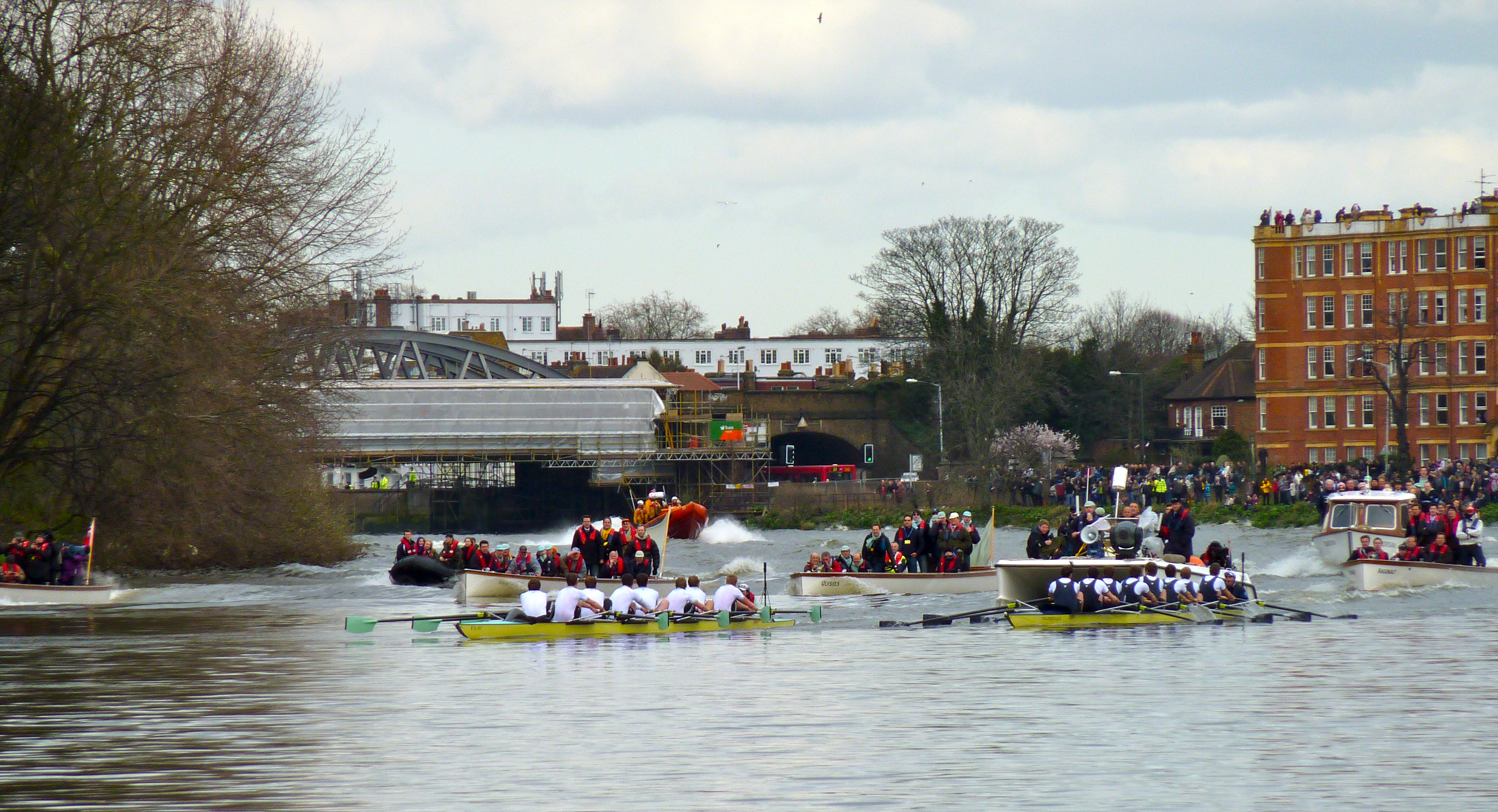 2010 University Boat Race